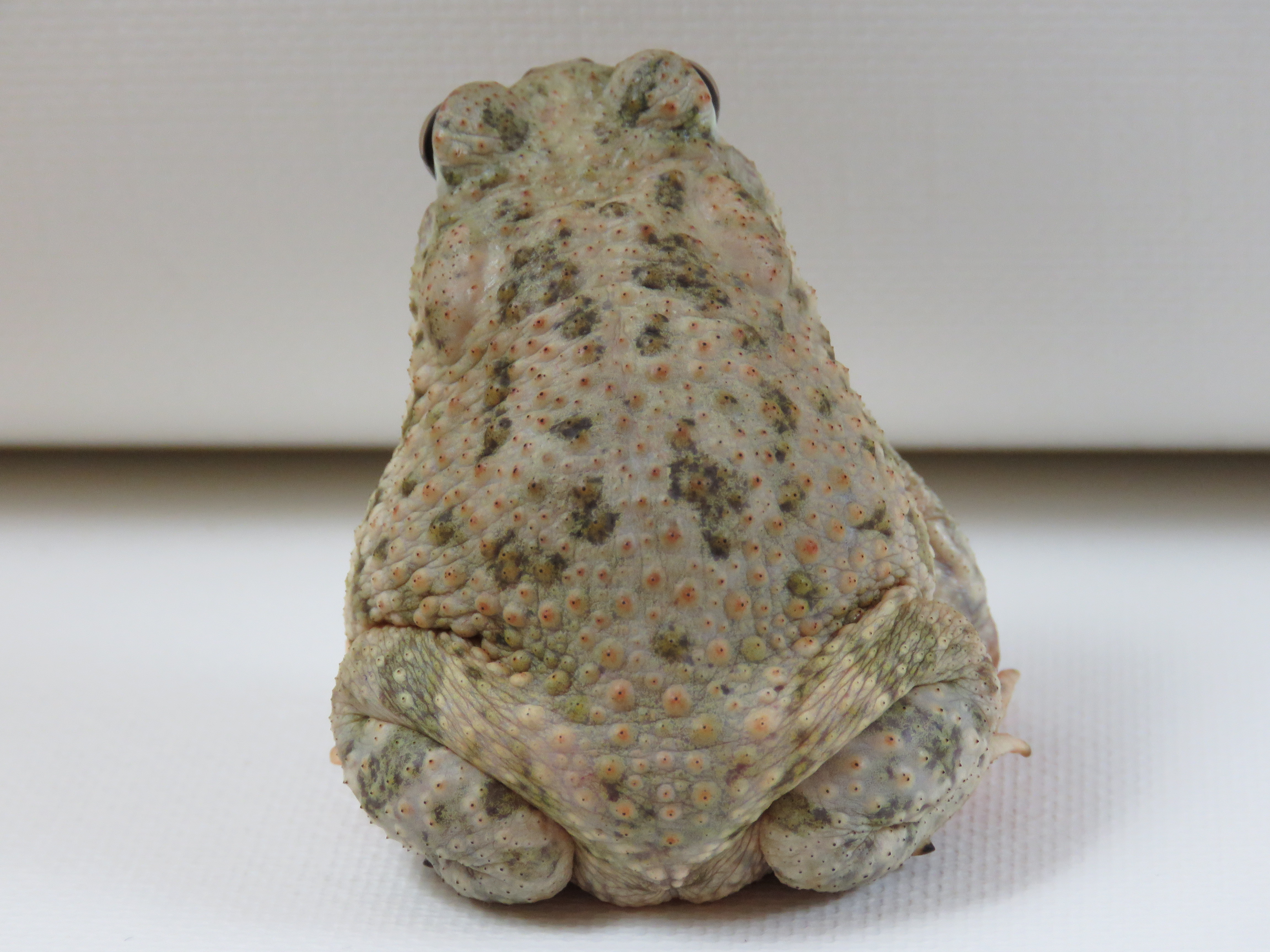 The Texas Toad, Anaxyrus speciosus, caught, photographed, then released in Del Rio, TX.